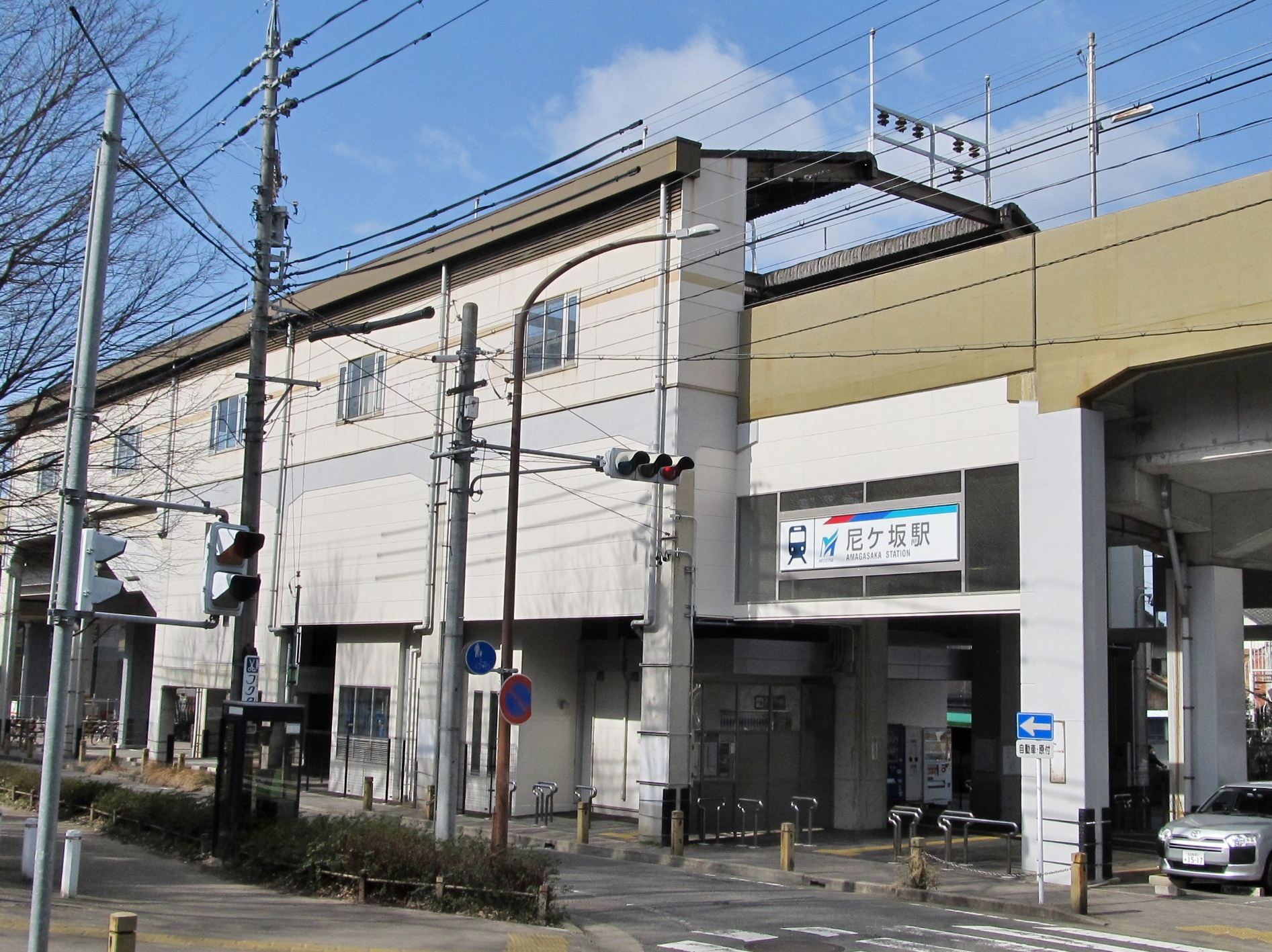 Nagoya Railroad Seto Line Amagasaka Station Building